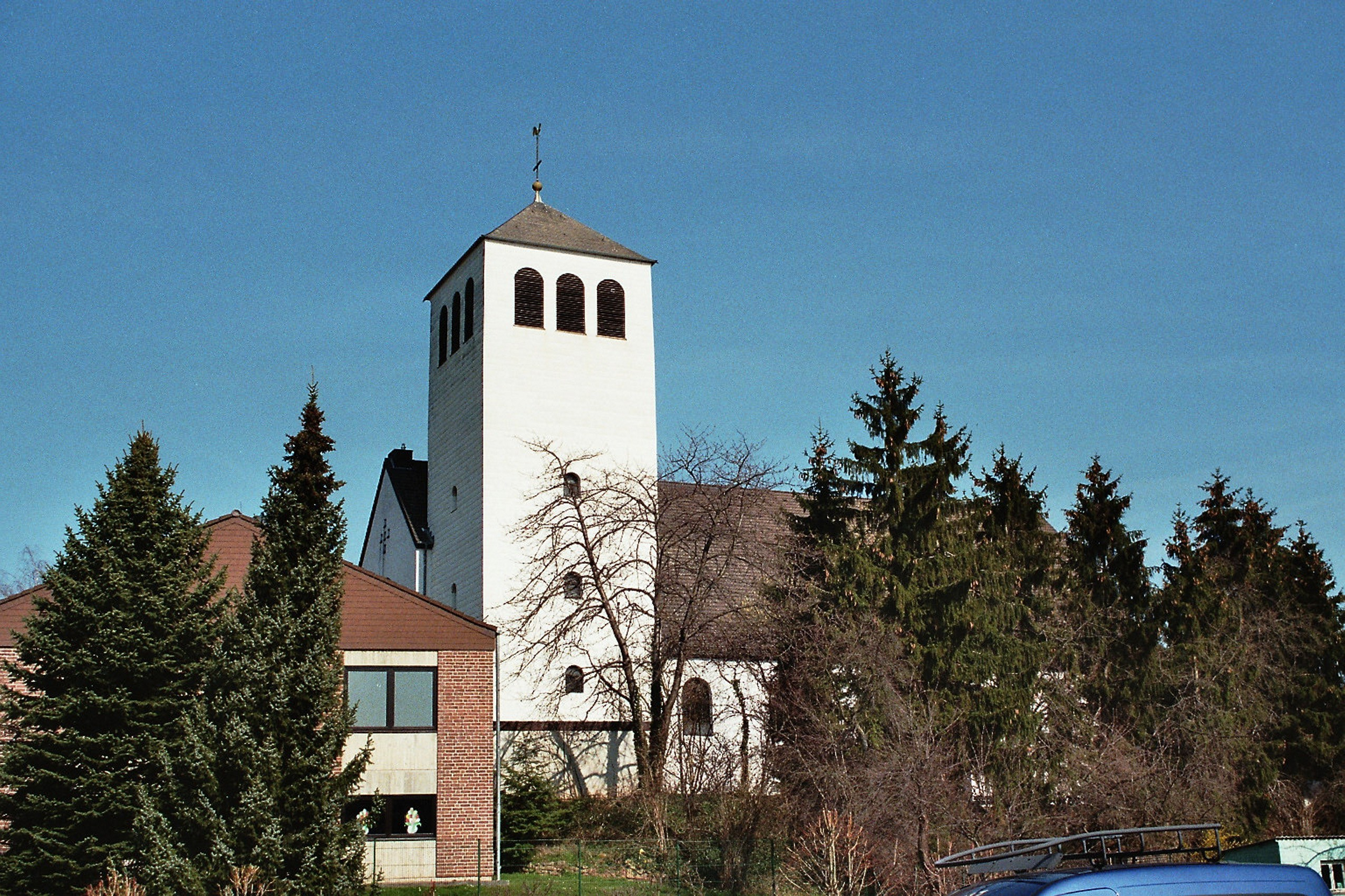 Mechernich, St. John Baptist church